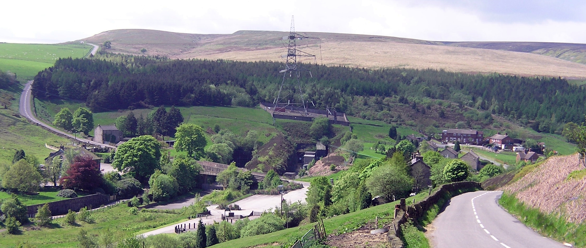 Dunford Bridge South Yorkshire, In the centre can be seen the old sealed up entrances to the Woodhead rail tunnels. The road to the left is called Windle Edge and leads to the A628 Sheffield to Manchester Road.